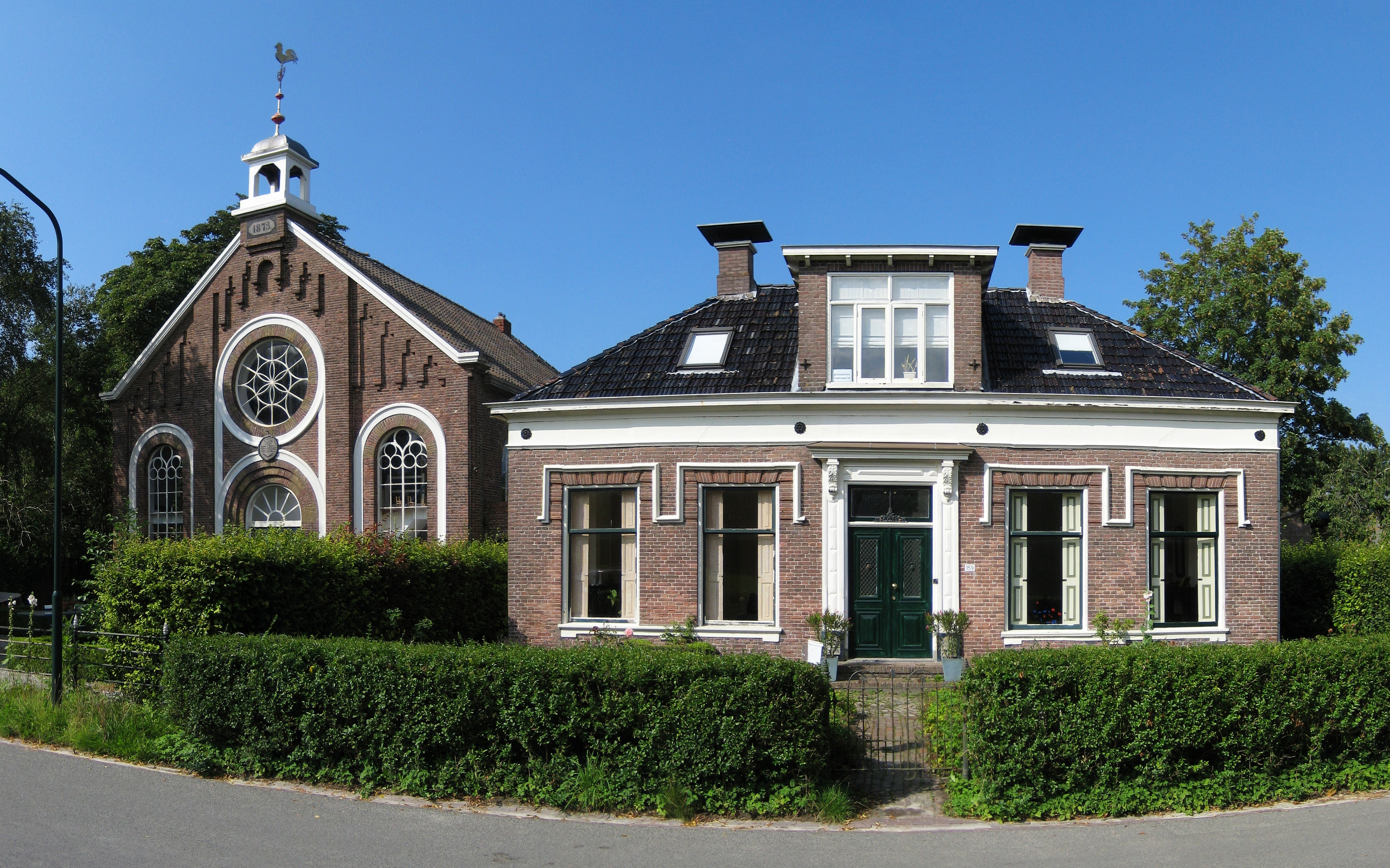 The former reformed church (1873) and rectory of Pieterburen, a village in the Dutch province of Groningen.